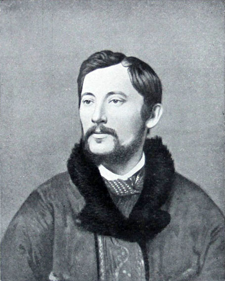 Portrait of Konstantin Nikolajewitsch Leontjew